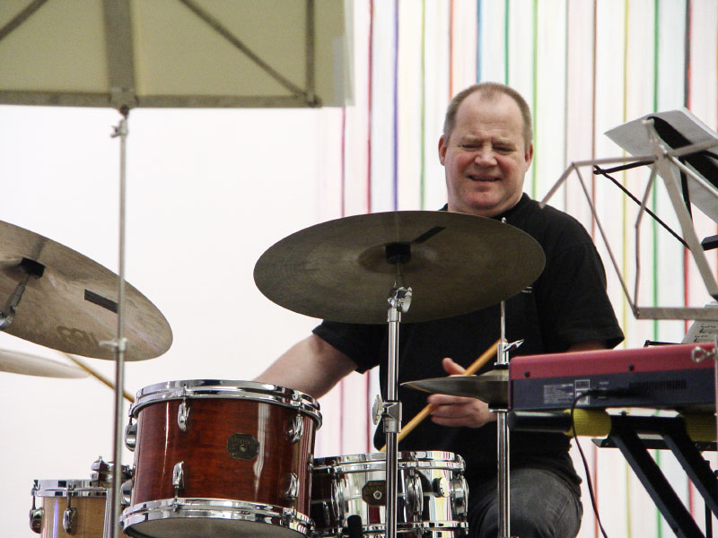 Anders Kjellberg in Aarhus (Denmark 2007)